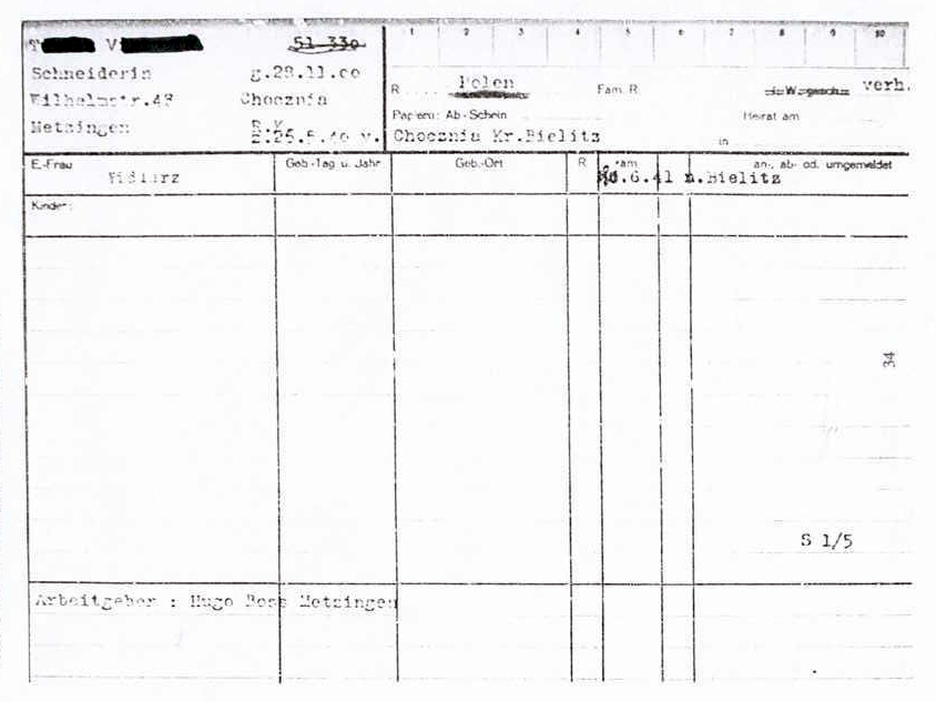 Resident registration of a Polish forced worker working at Hugo Boss.